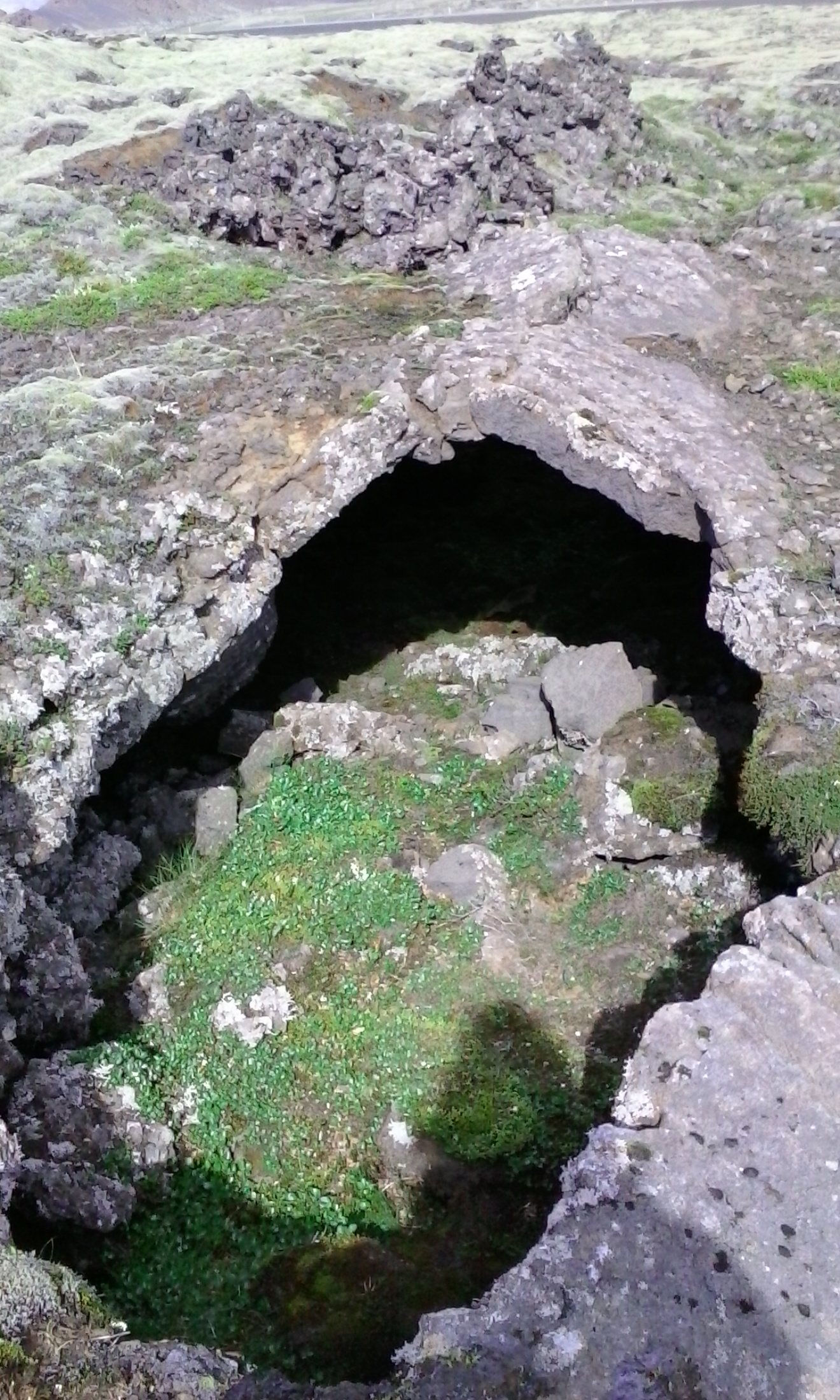 Eldborg crater, Bláfjöll, Southwest Iceland